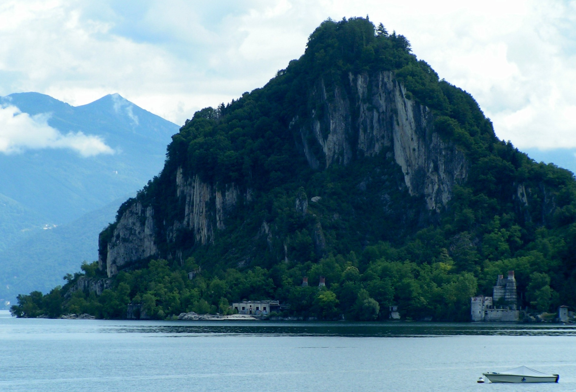 Rock near Castelveccana (Lago Maggiore)